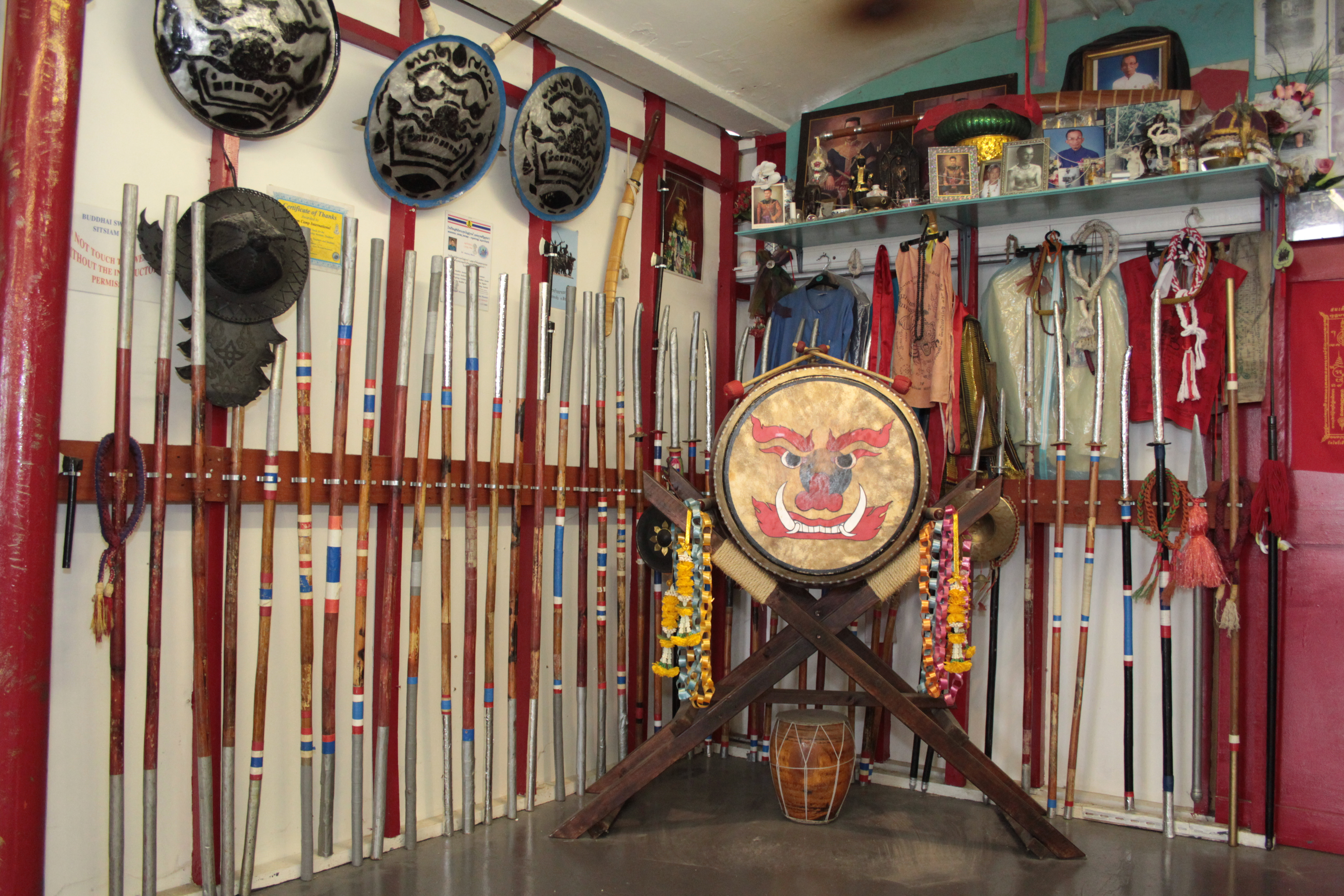 The Sitsiam Camp in Manchester, England